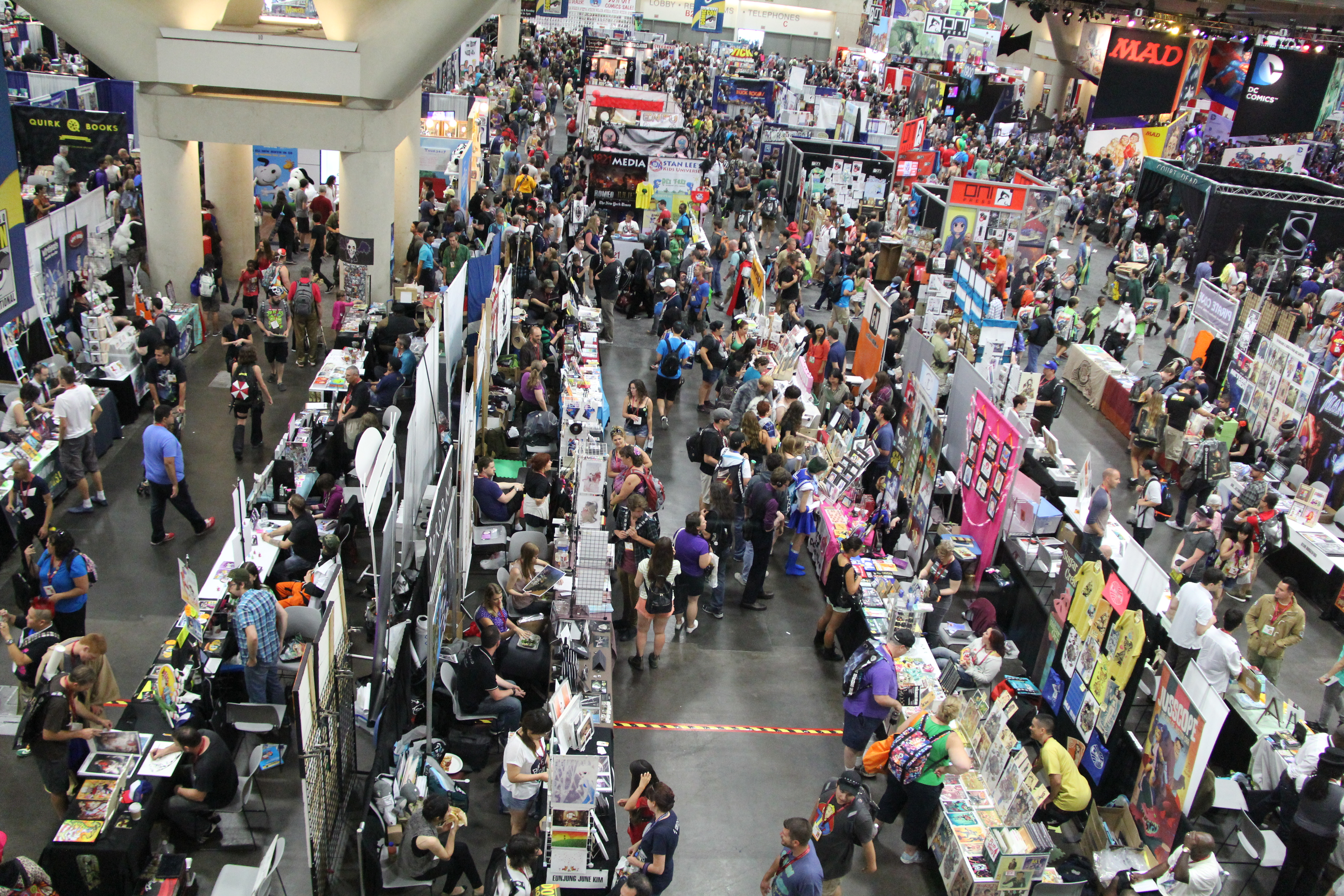 San Diego Comic-Con 2014 - Small Press Hall